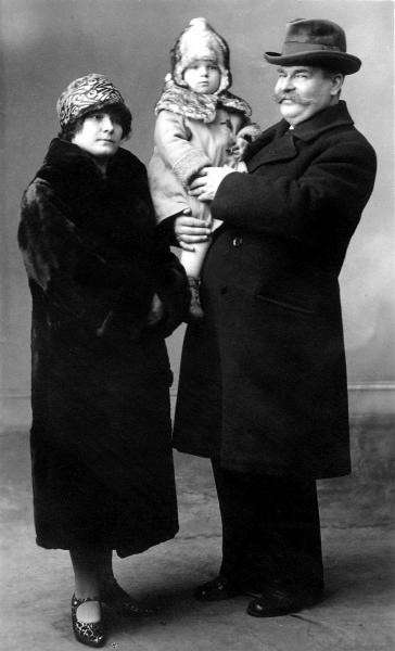 Photograph of the Finnish musician Emil Sivori (1854–1929) with his wife Hellin and son Jouko.